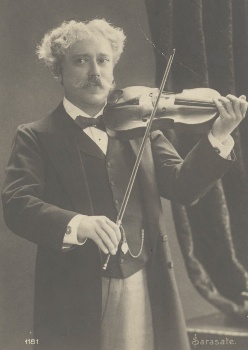 Pablo de Sarasate (1844-1908), Spanish violonist and composer